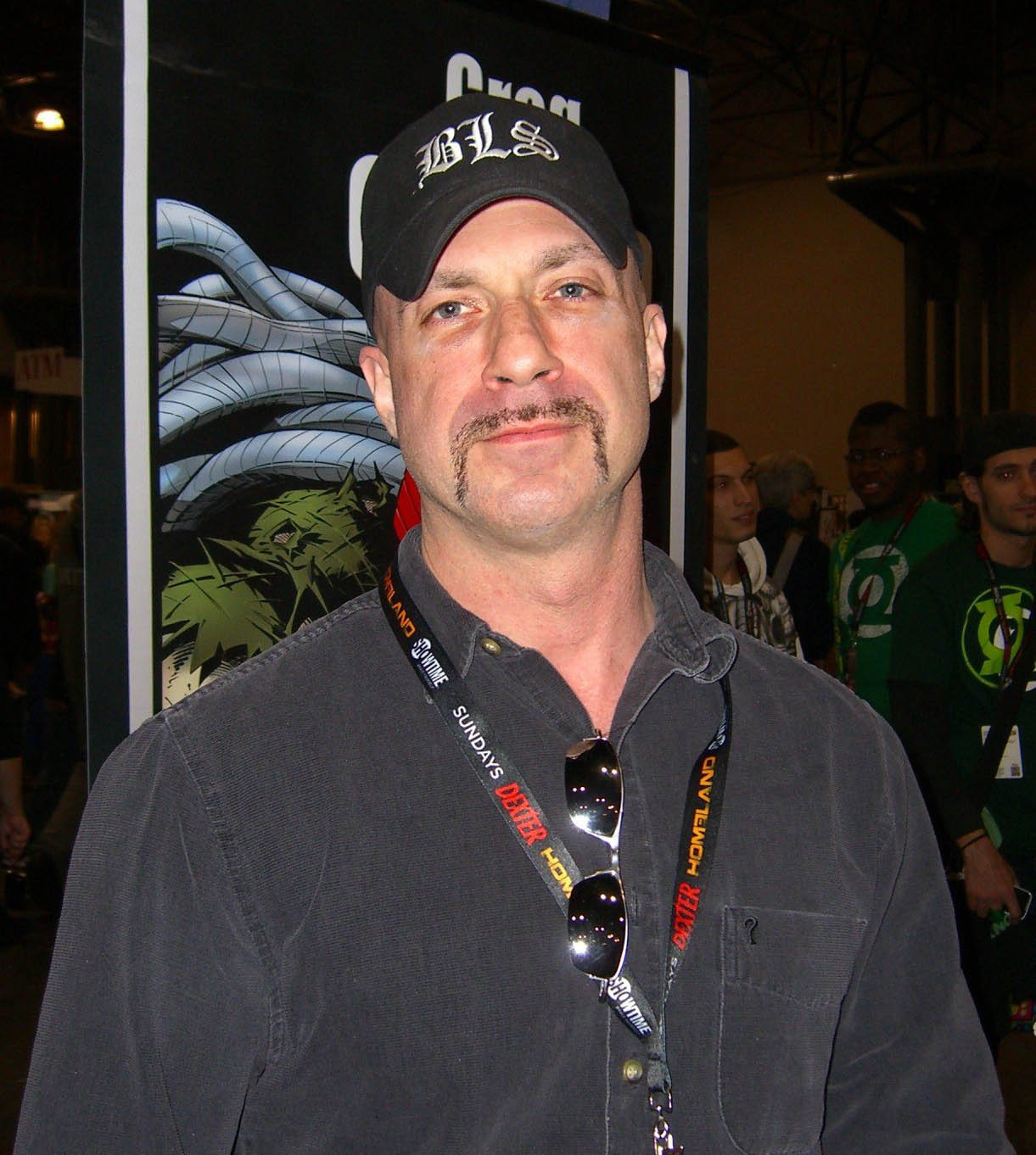 Comics creator Greg Capullo at the New York Comic Con, October 15, 2011. This photo was created by Luigi Novi. It is not in the public domain, and use of this file outside of the licensing terms is a copyright violation.